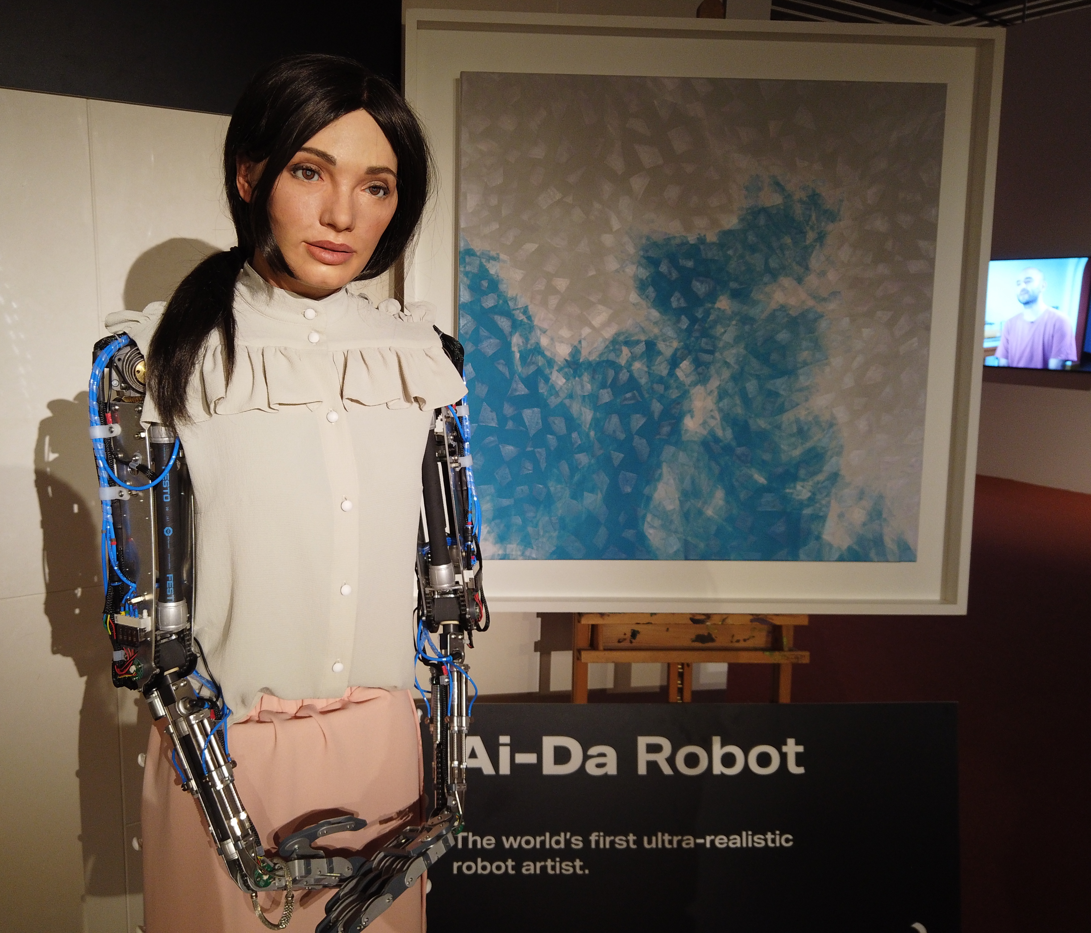 Ai-Da Robot wearing Edeline Lee, at Abu Dhabi Art, Abu Dhabi. Photo taken with an Osmo camera on 20 November 2019. DCIM\100MEDIA\DJI_0386.JPG